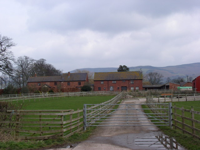 Plas Coch Farm, Llanychan.